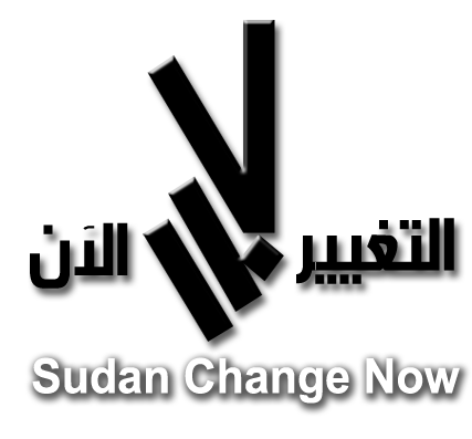 شعار حركة التغيير الآن